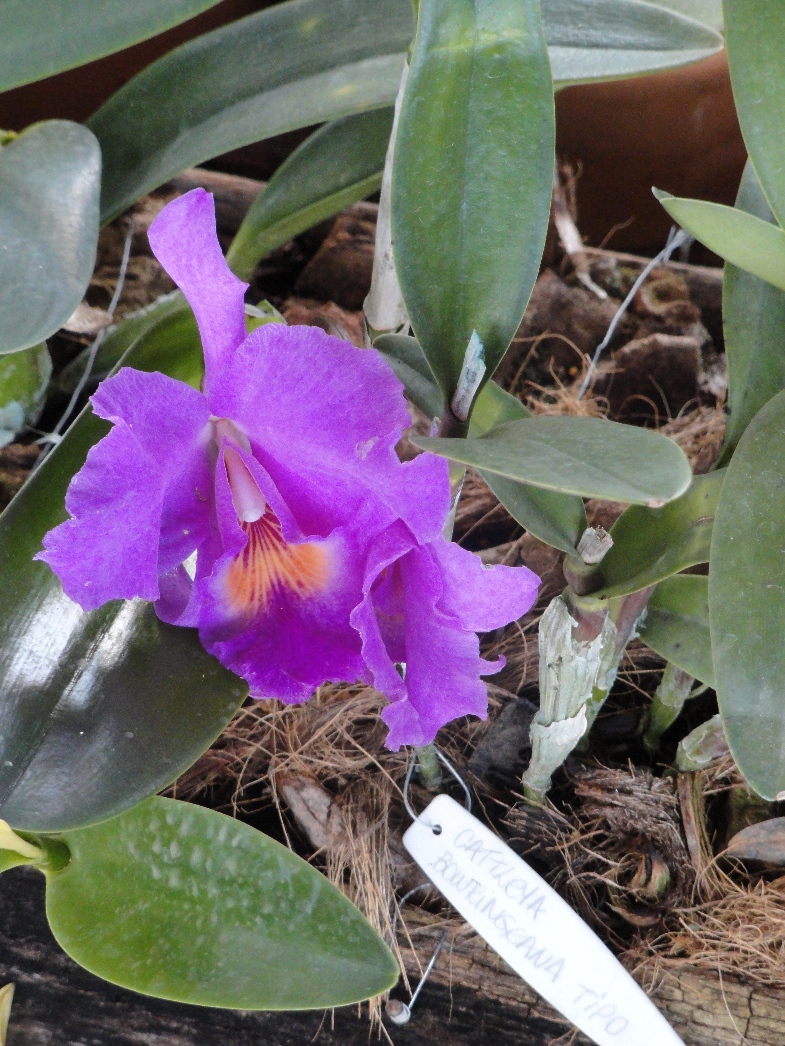 Botanical specimen in the Orchid Nursery Margaret Mee, in the Jardim Botânico de Brasília, Brasília, Brazil.